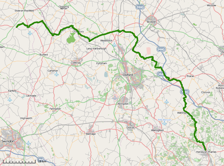 Map showing the route of the Oxfordshire Way long distance footpath and bridleway. Scale 128m per pixel. Located primarily in Oxfordshire, England.